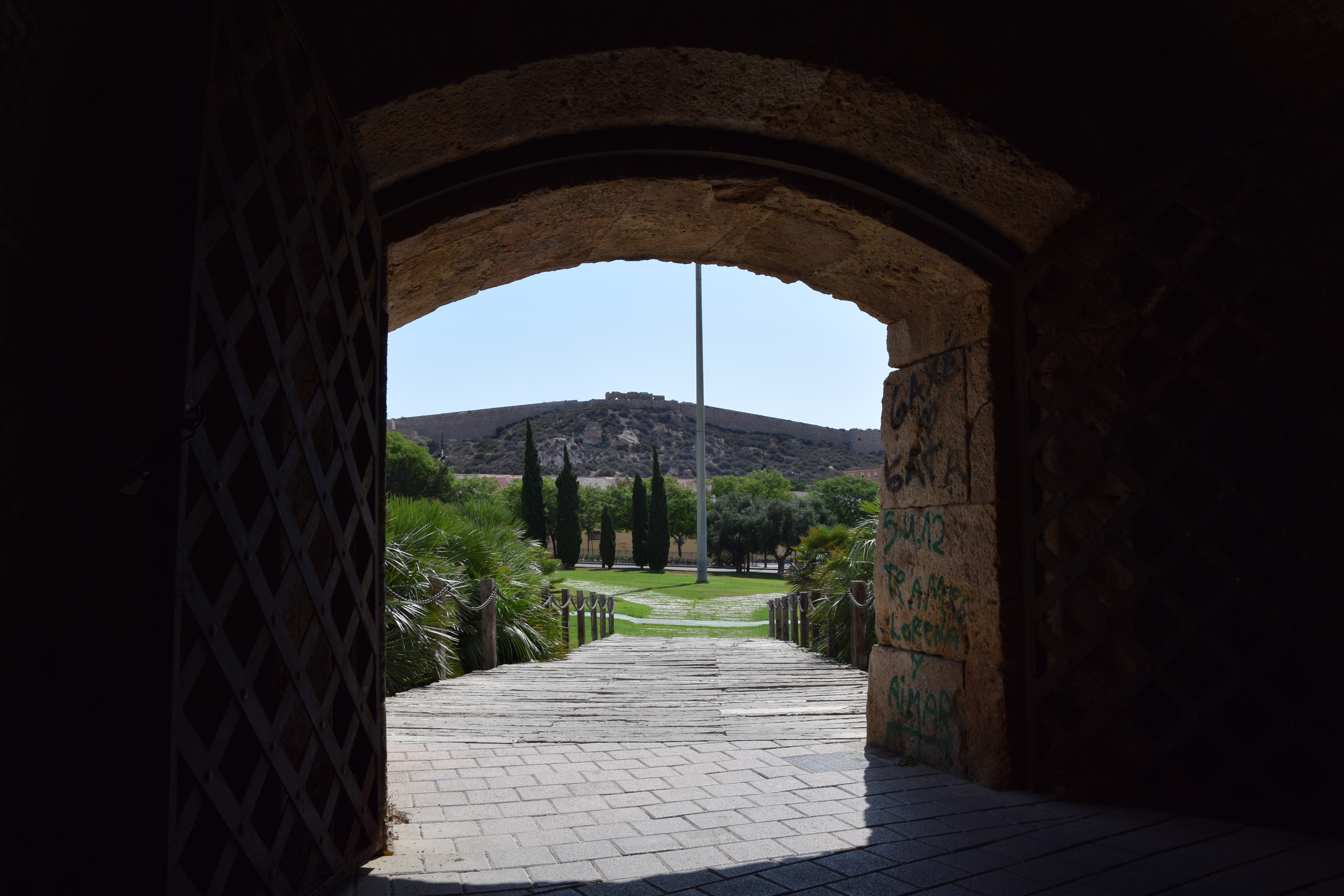 View of the Castle of the Moors from the Socorro Gate located on the Charles III Wall. Cartagena, Spain.